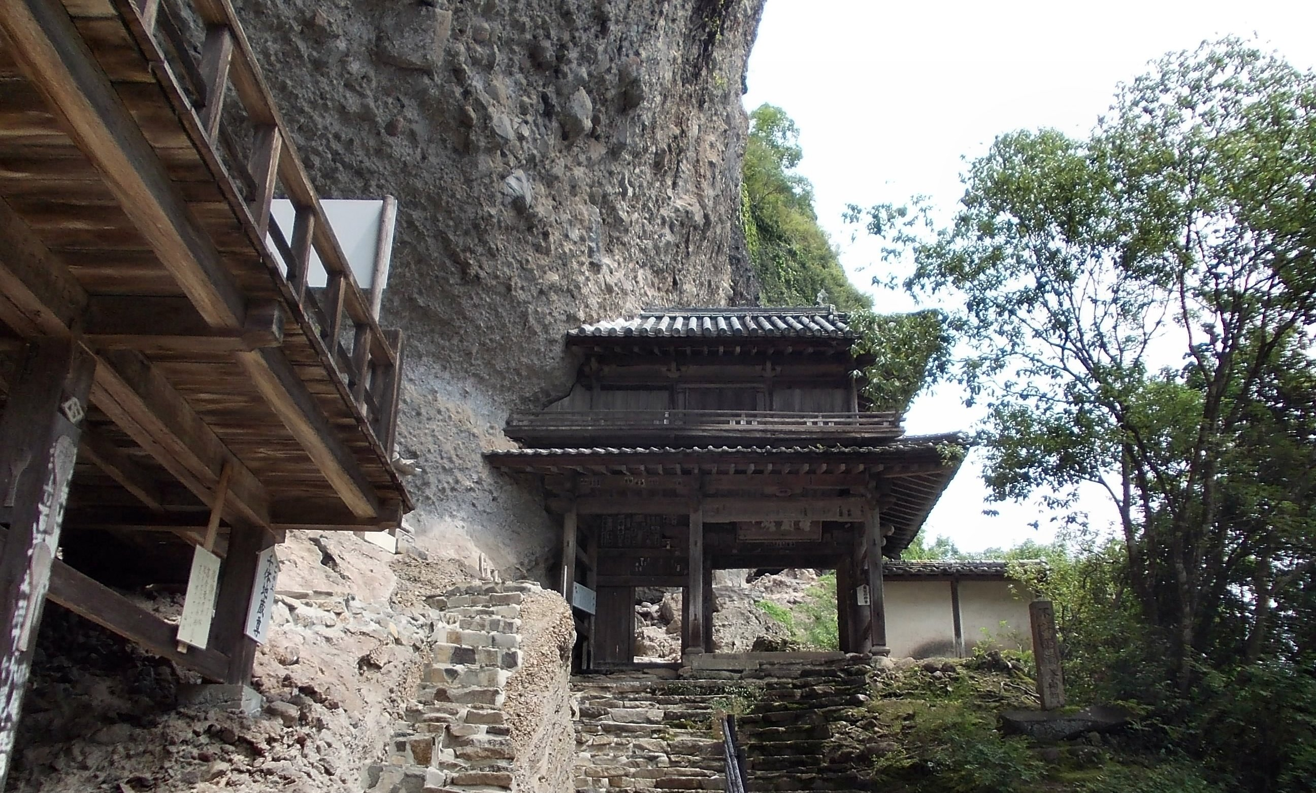 Rakan-ji Temple Sanmon Gate, Nakatsu, Oita, Japan